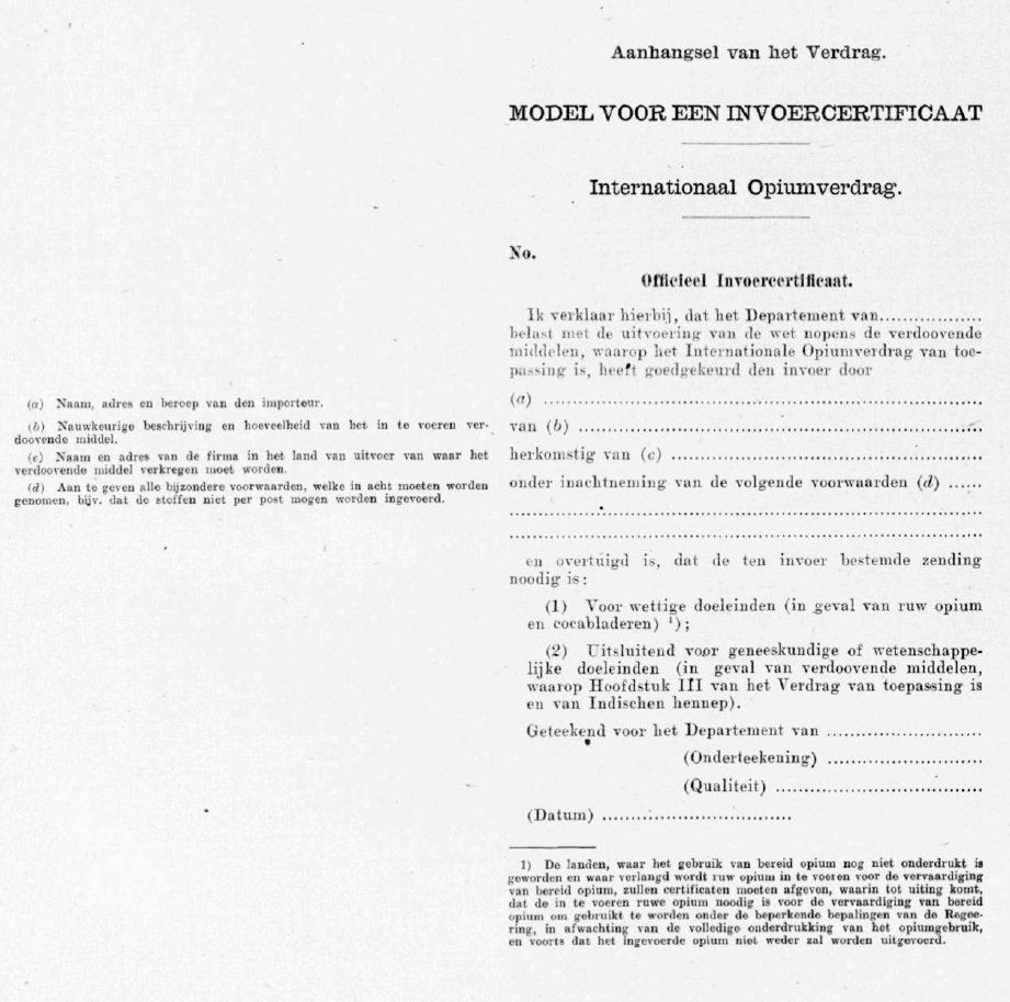 Dutch model form of import certificate from the Second International Opium Convention.